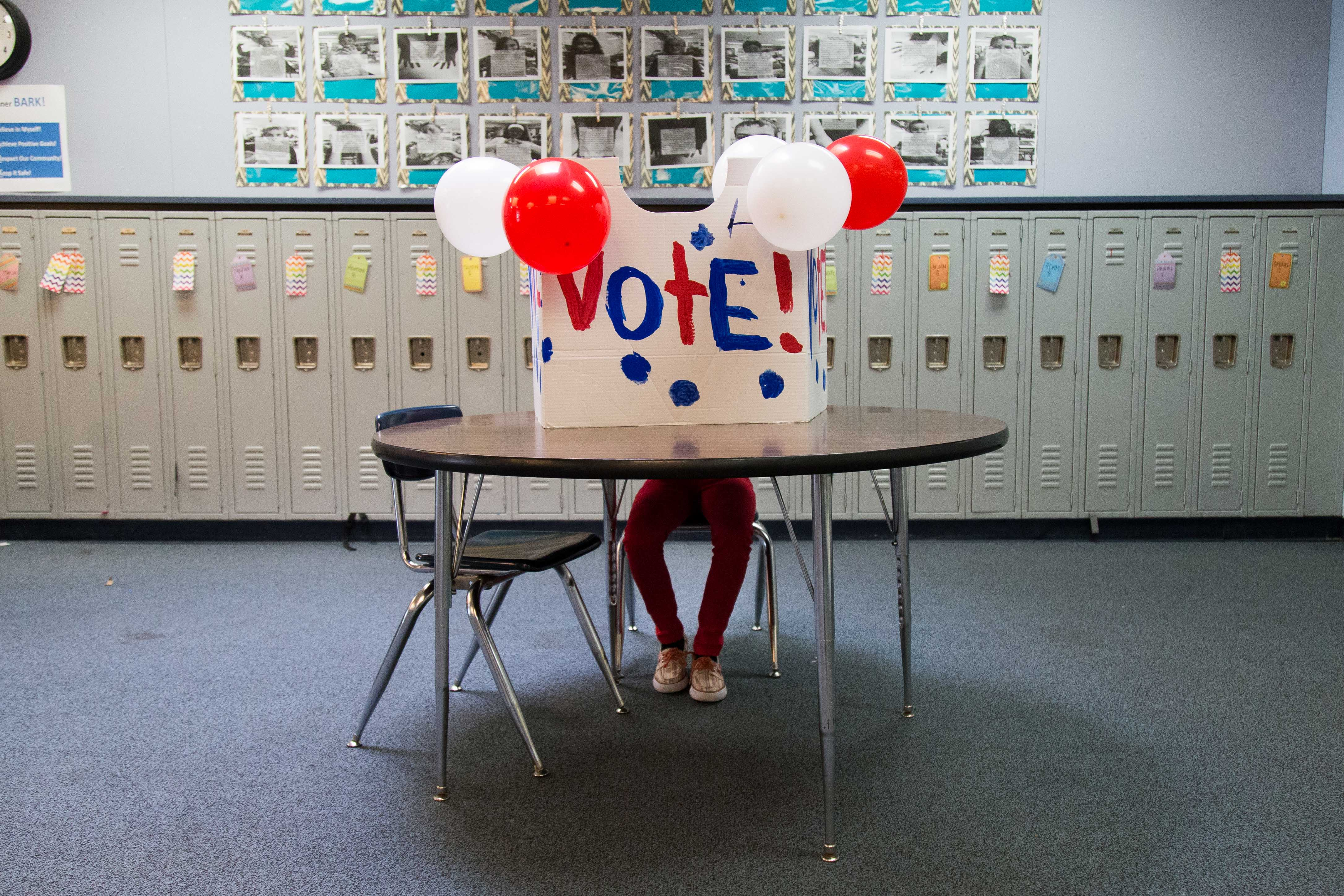 Photos shot for work of a mock election held at Brubaker Elementary School. The results? Hillary Clinton received 72 votes, or 56.25%; Donald Trump received 47 votes, or 36.7%; Gary Johnson got 5 votes ... and 5th grade teacher Kristy Ira received 4 write-in votes.